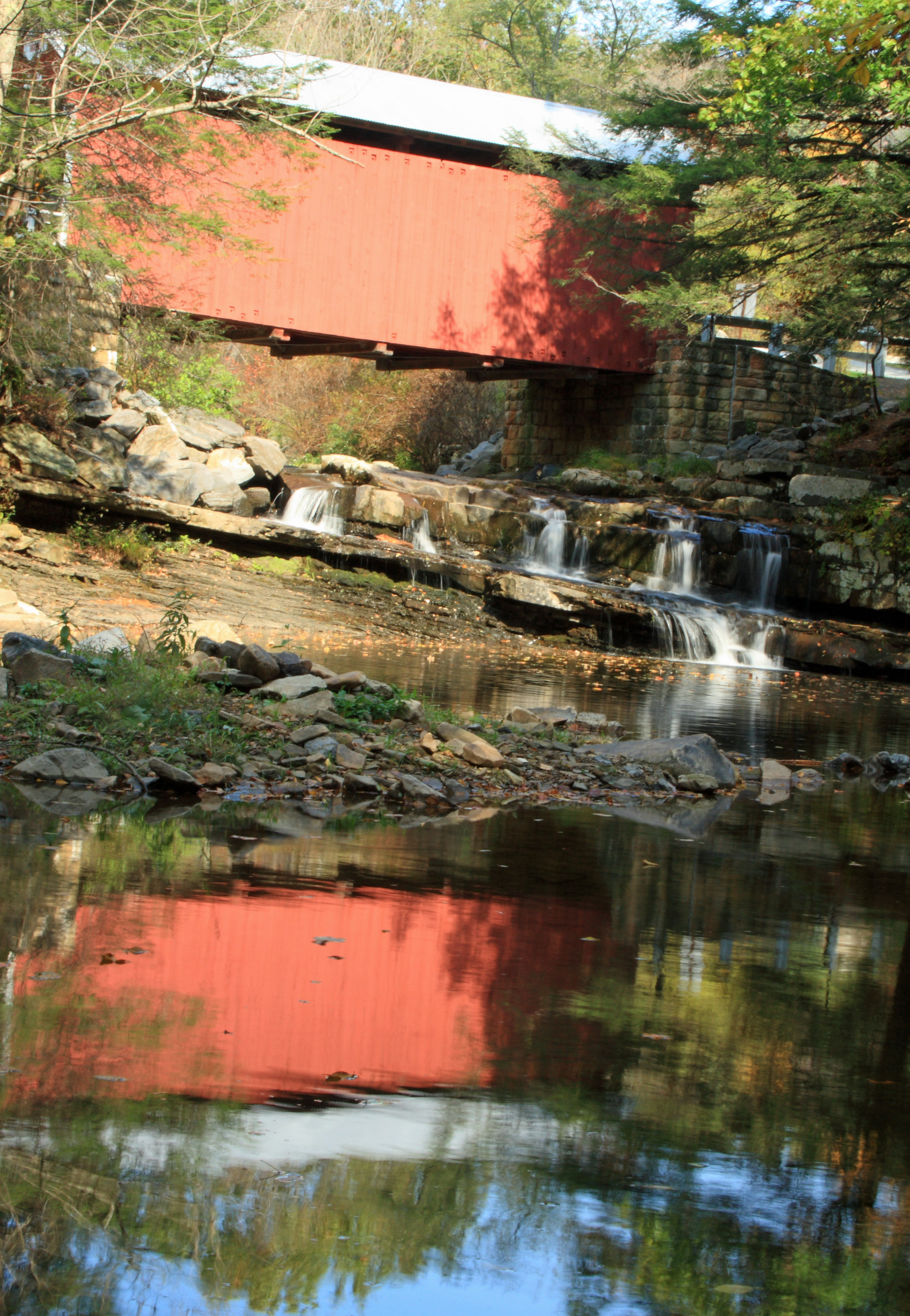 Packsaddle Covered Bridge built in 1877 over Brush Creek in Fairhope Township, Somerset County, Pennsylvania, USA. Original description from Flickr: During a family visit back to western PA in October 2010 we hopped in my sister's car and checked out some quaint covered bridges - I think all of them are in Bedford County #but let me know if I'm wrong## The bridges are still in good shape but several are no longer in use# It was a fun day checking these out since I had never seen any of them before#